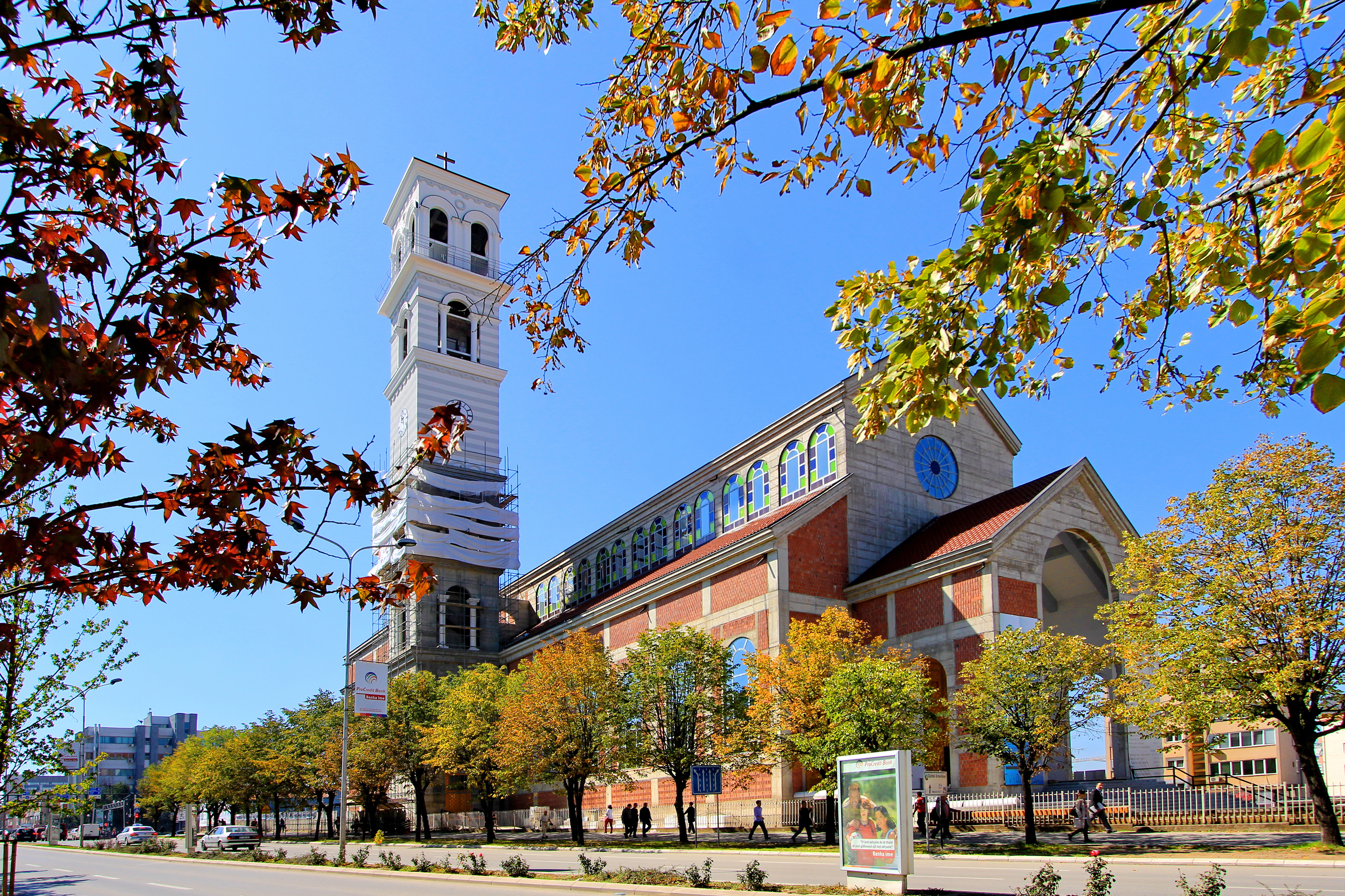 the cathedral